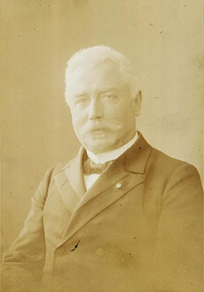 Hans Peter Parkov (1857-1934), Danish politician, Mayor of Gentofte Municipality, member of the Folketing